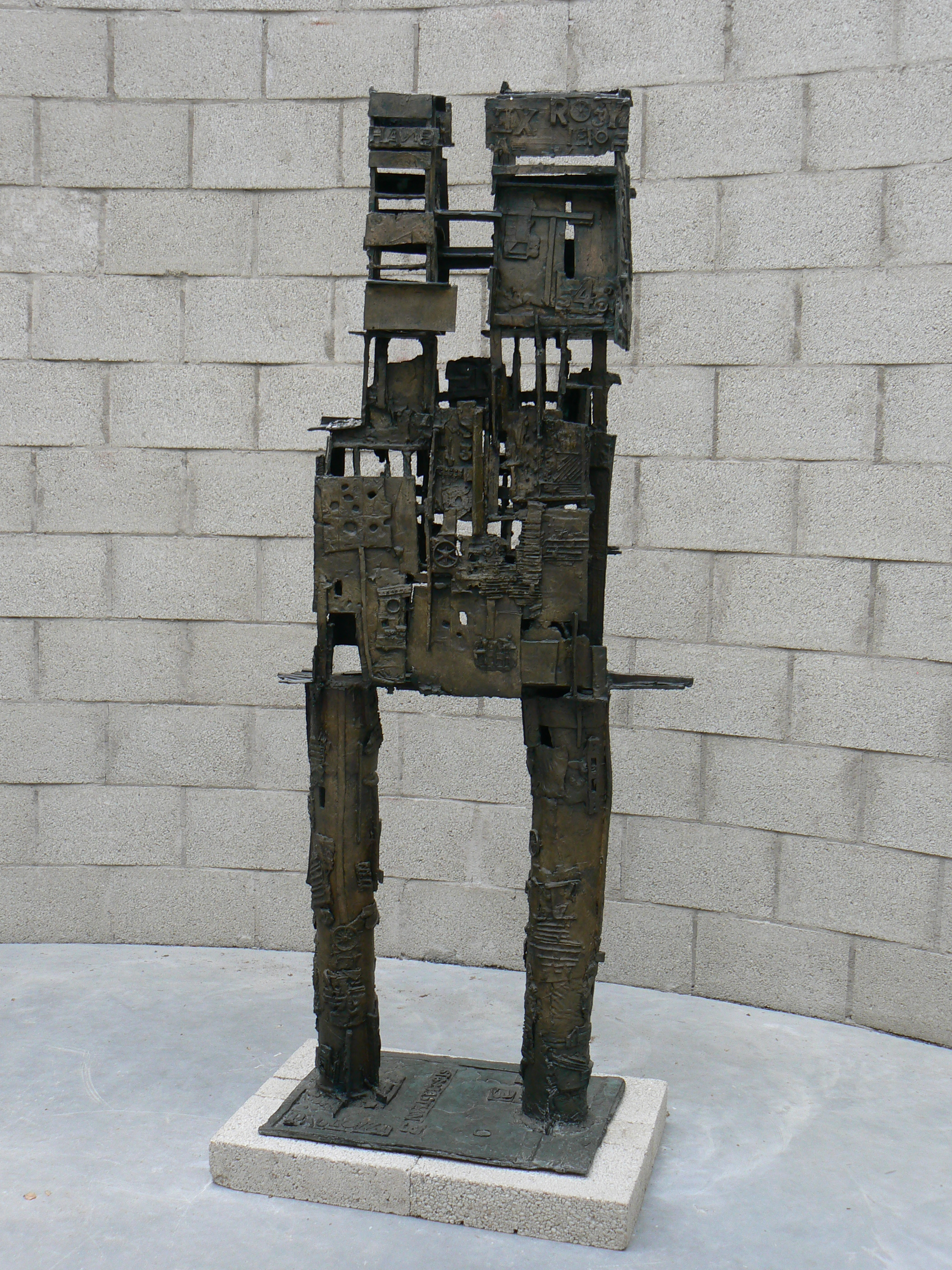 sculpture St. Sebastian III (1958) by Eduardo Paolozzi in sculpturepark KMM/The Netherlands